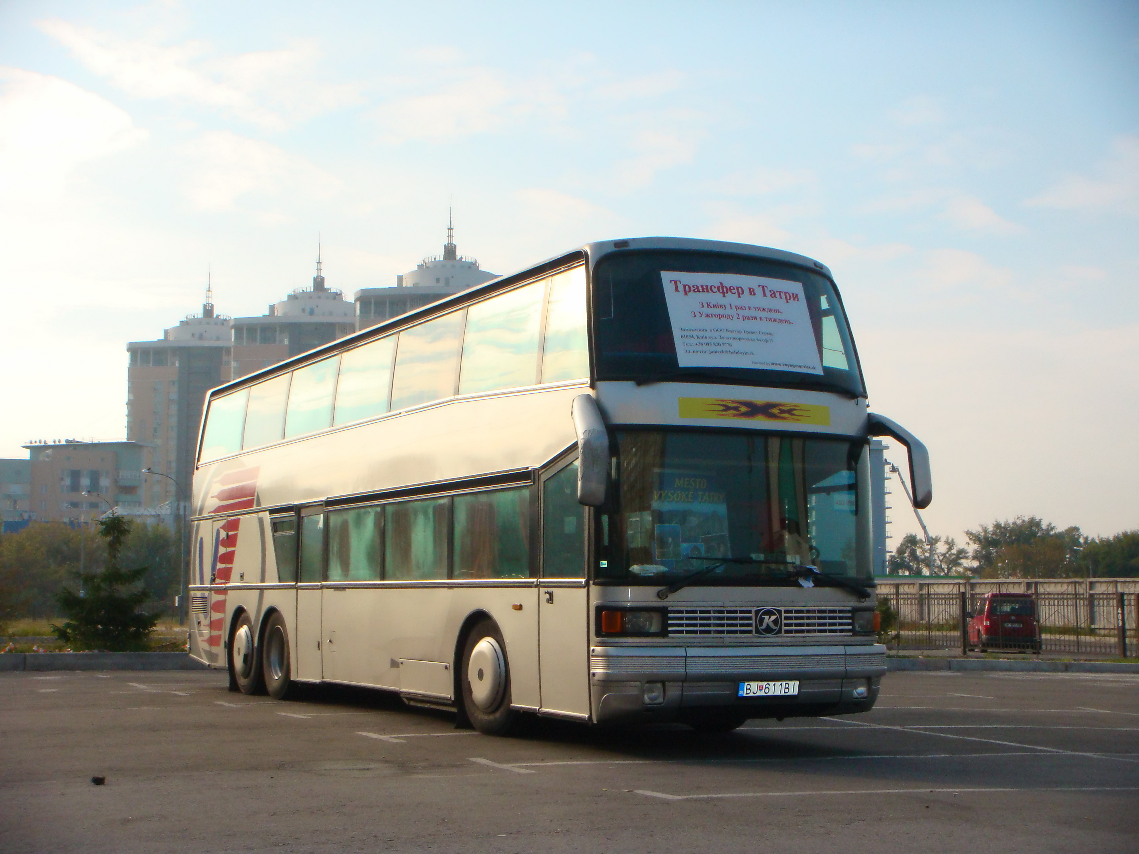 Setra S228 DT coach in Kiev, Ukraine. Registered in Slovakia, probably in Bardejov.